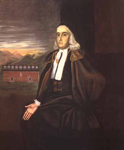 Portrait of William Stoughton, colonial magistrate of the Salem Witch Trials and acting governor of Massachusetts.